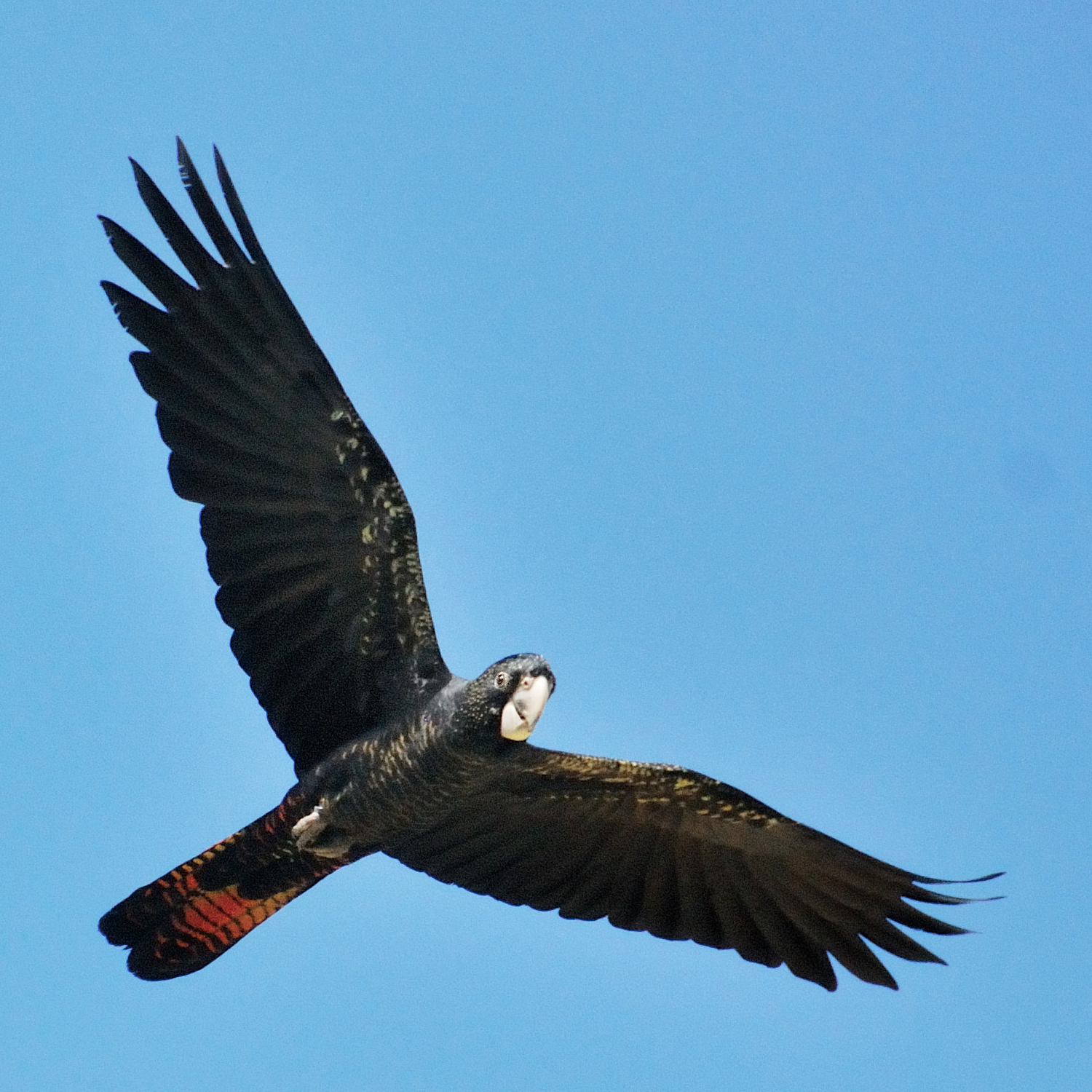 Red-tailed Black Cockatoo also known at the Banksian- or Bank's Black Cockatoo flying at Australia Zoo, Australia.